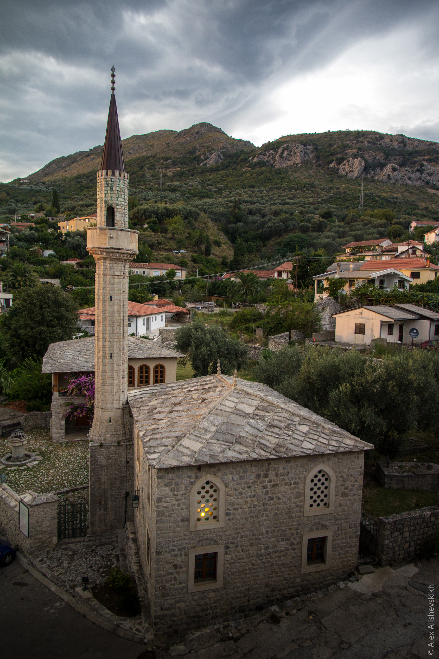 Old Bar